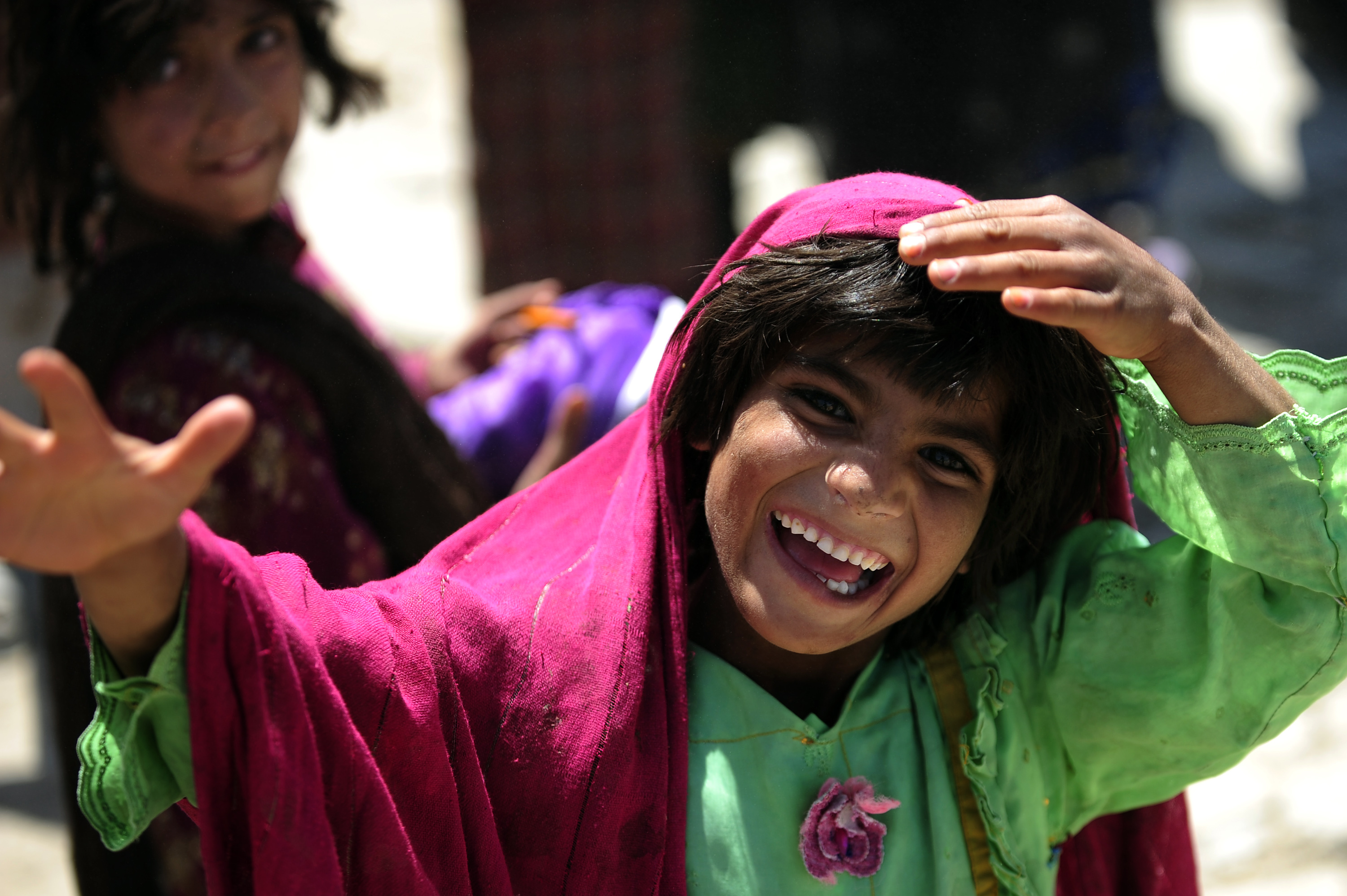 An Afghan girl smile as members of the Camp Eggers Volunteer Community Relations program distribute clothing and school supplies during a visit to their refugee camp, July 24. The program is run and staffed by volunteers and distributes donations sent by churches, civic organizations and schools in the U.S.